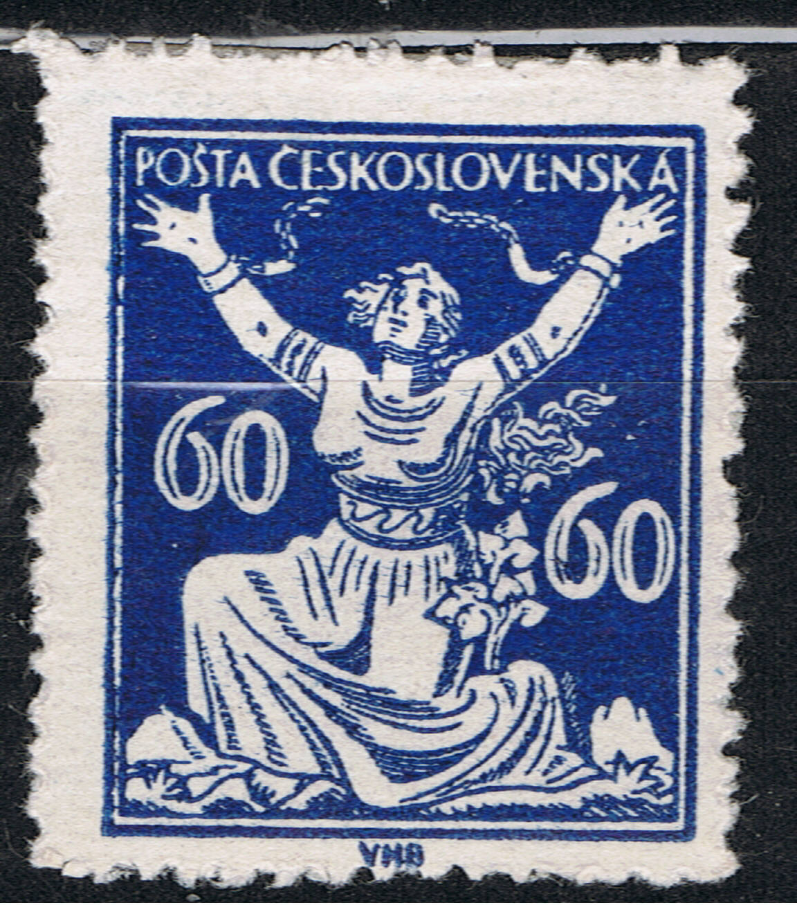 Czechoslovak postage stamp, 1920/1922, Mi. 176